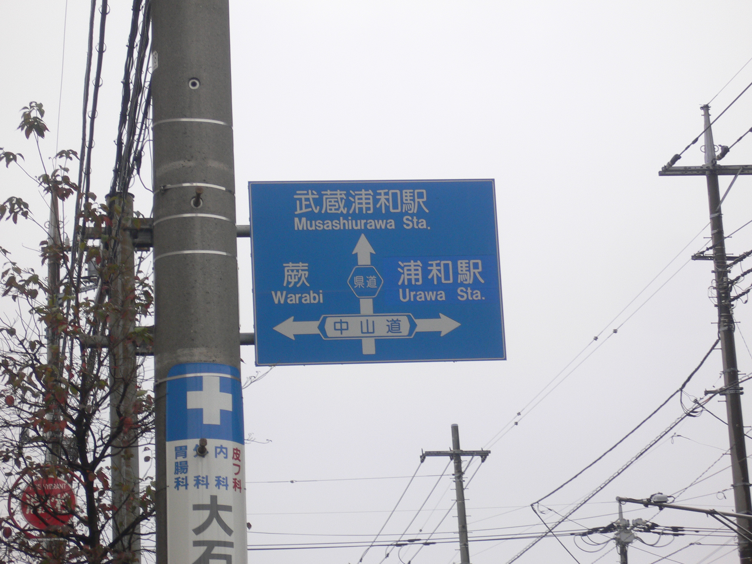 tajima-avenue